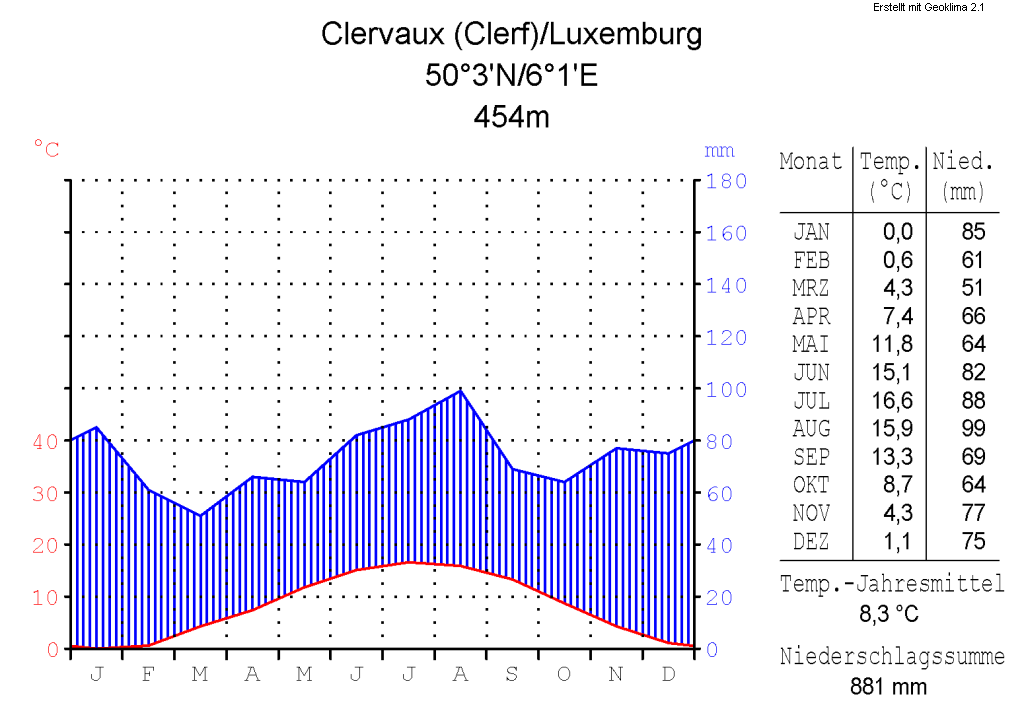 climate chart in the format by Walter and Lieth, metric, °Celsisus and millimeters, made with Geoklima 2.1